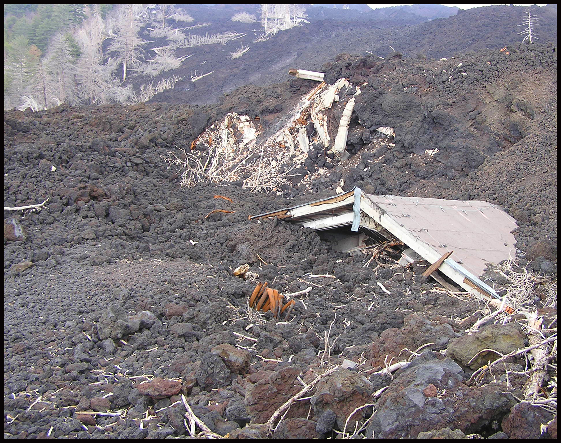 House buried in lava from Mount Etna, Sicily.